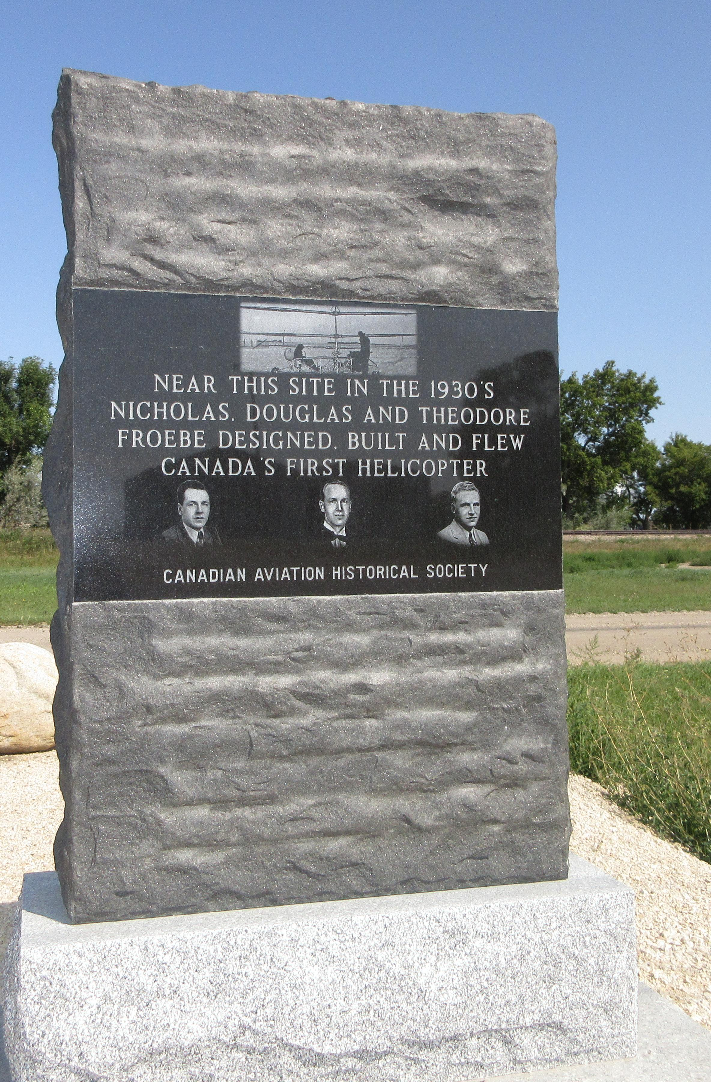 Marker near Homewood, Manitoba commemorating an experimental helicopter built and tested in 1937-1939.